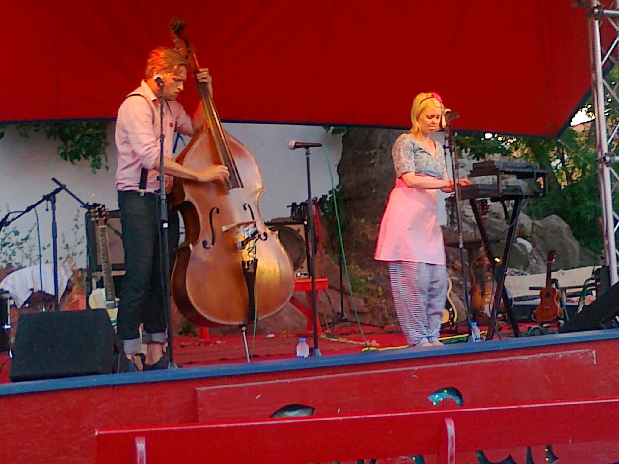 The Danish band, ditbandmitband, at stage in "Gæstgiveren" in Allinge, Bornholm, Denmark: Thomas Raae (bass) and Sara Grabow (keyboards)